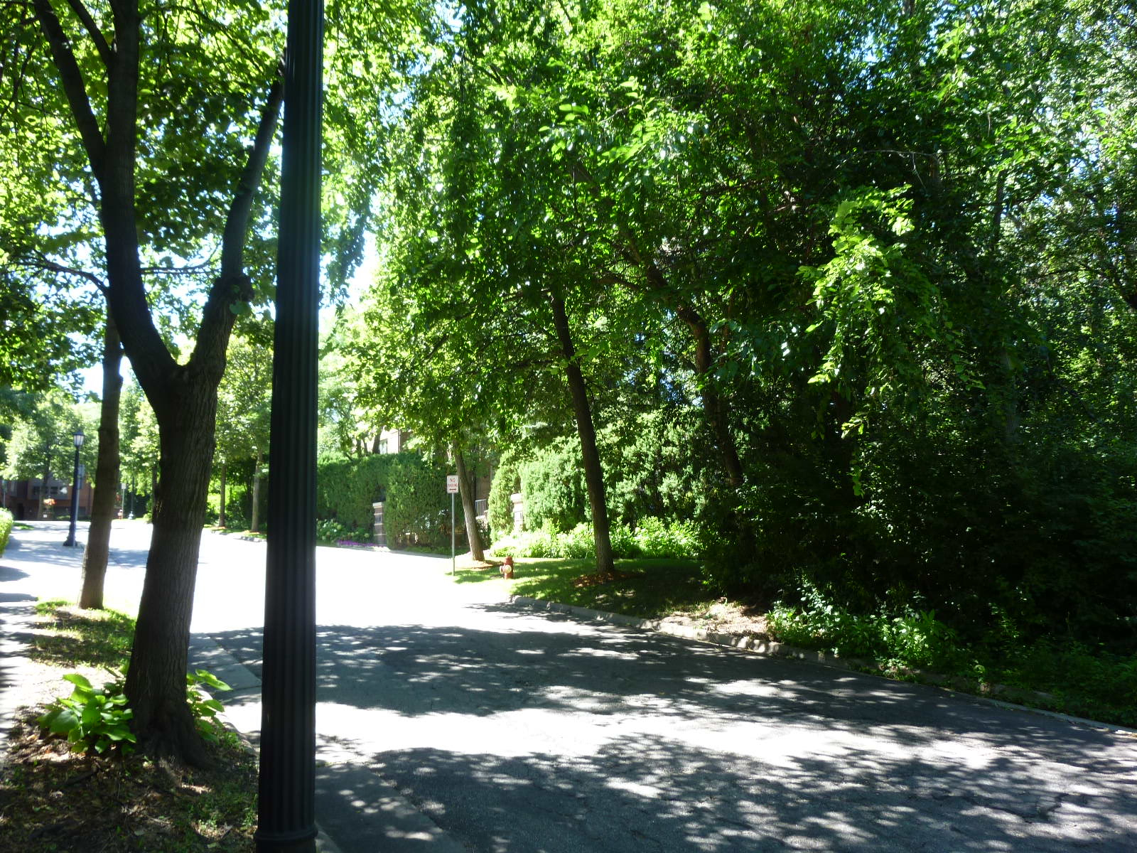 Vicinity of Groveland Terrace, Minneapolis, Minnesota, USA